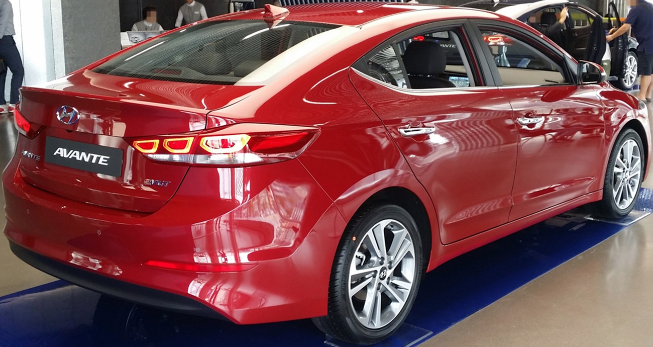 Hyundai Avante